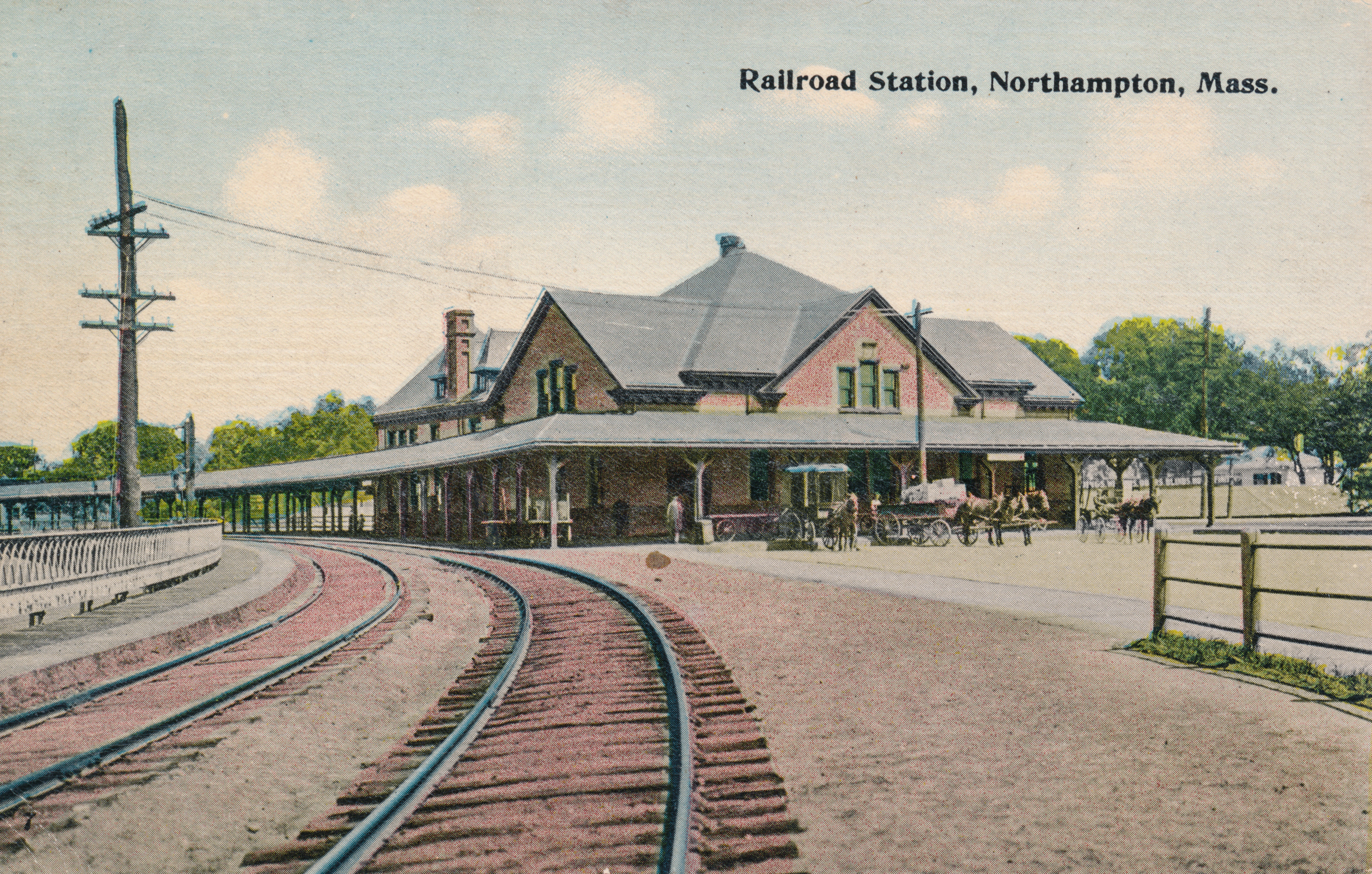 An early postcard with an image of the Union Station building in Northampton, Massachusetts.